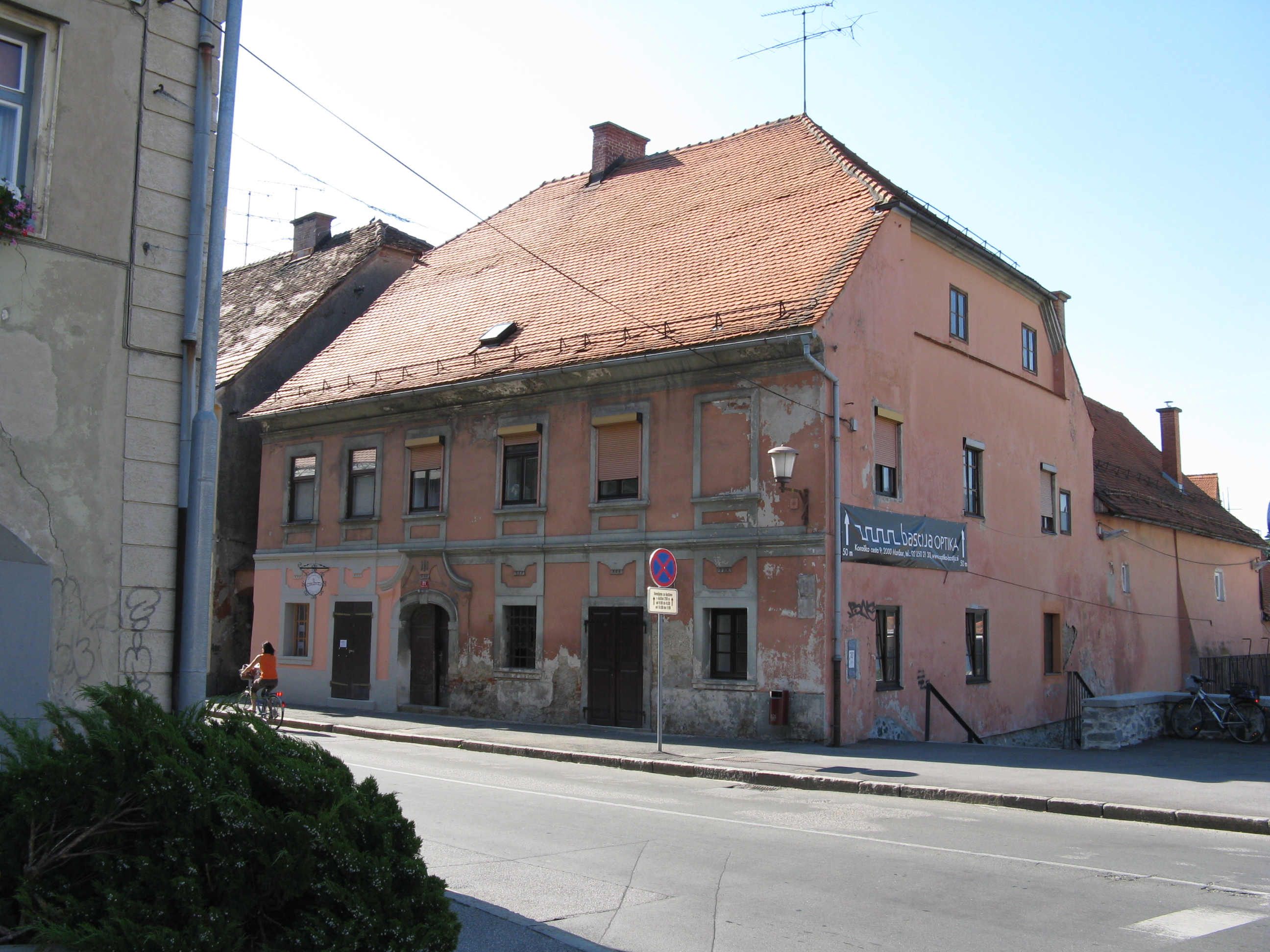 A house from the year 1552